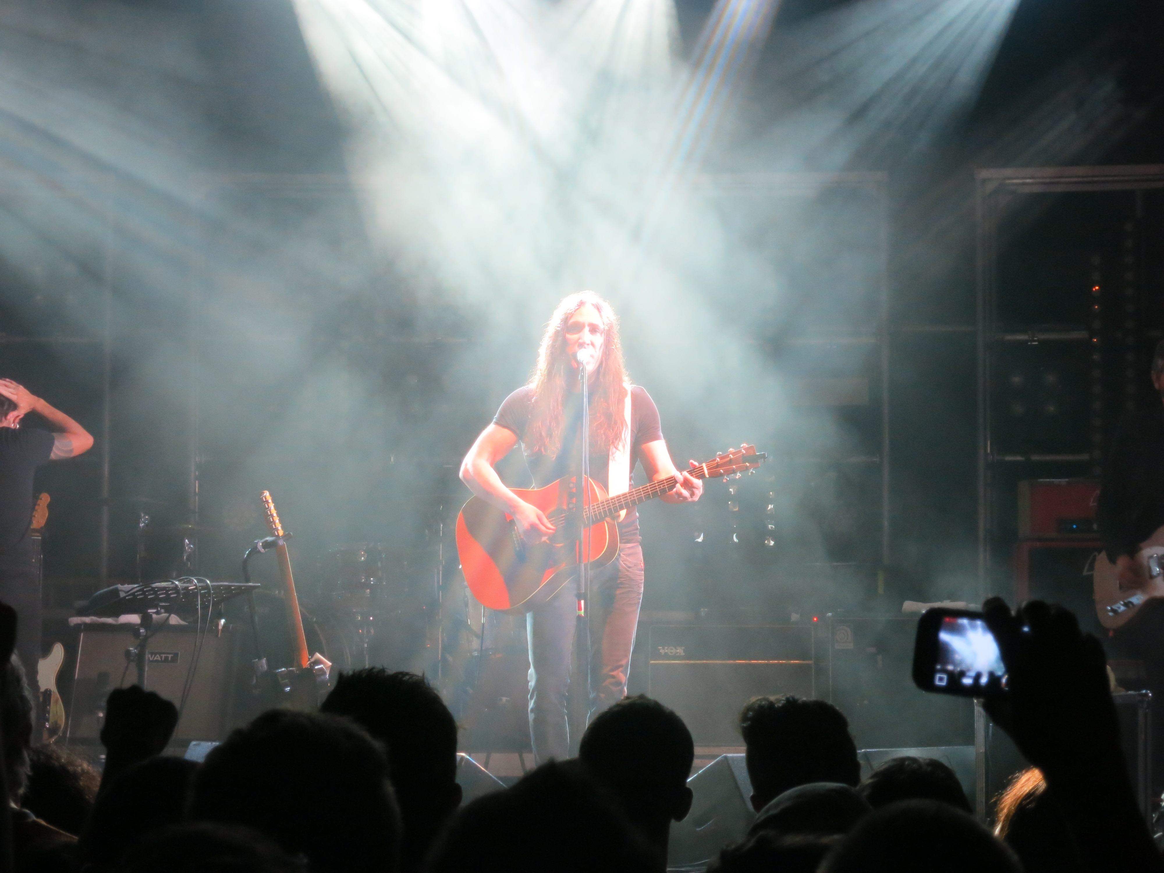 Afterhours - Hai paura del buio Tour 2014, at Metarock Festival - La Cittadella Park, Pisa, Italy